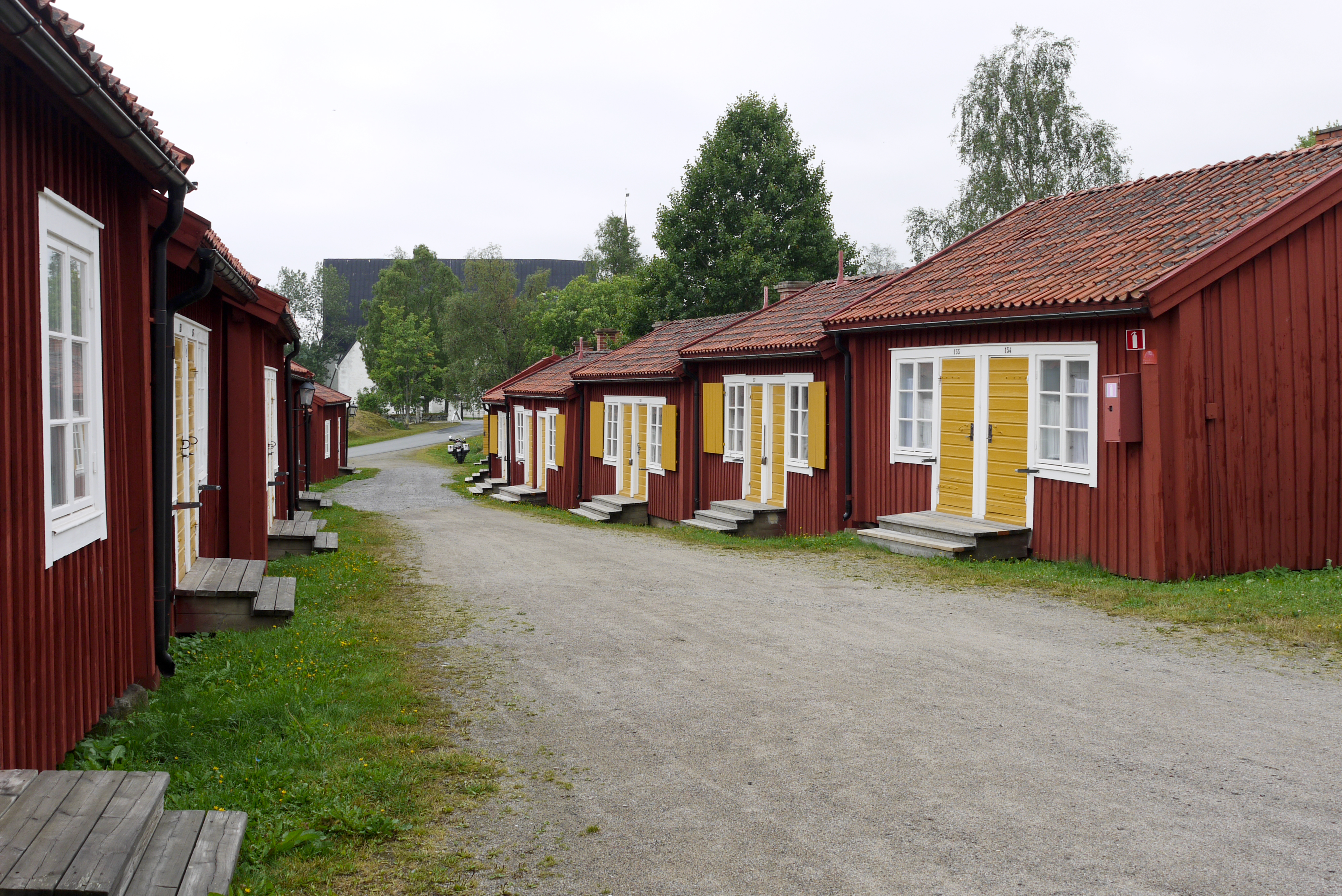 Lövånger. Kyrkstaden. Skellefteå kommun, Sweden.